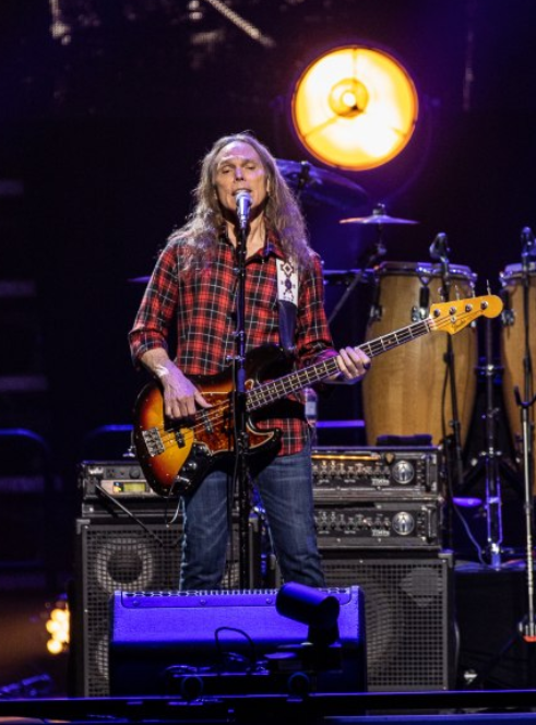 Tim Schmit in concert